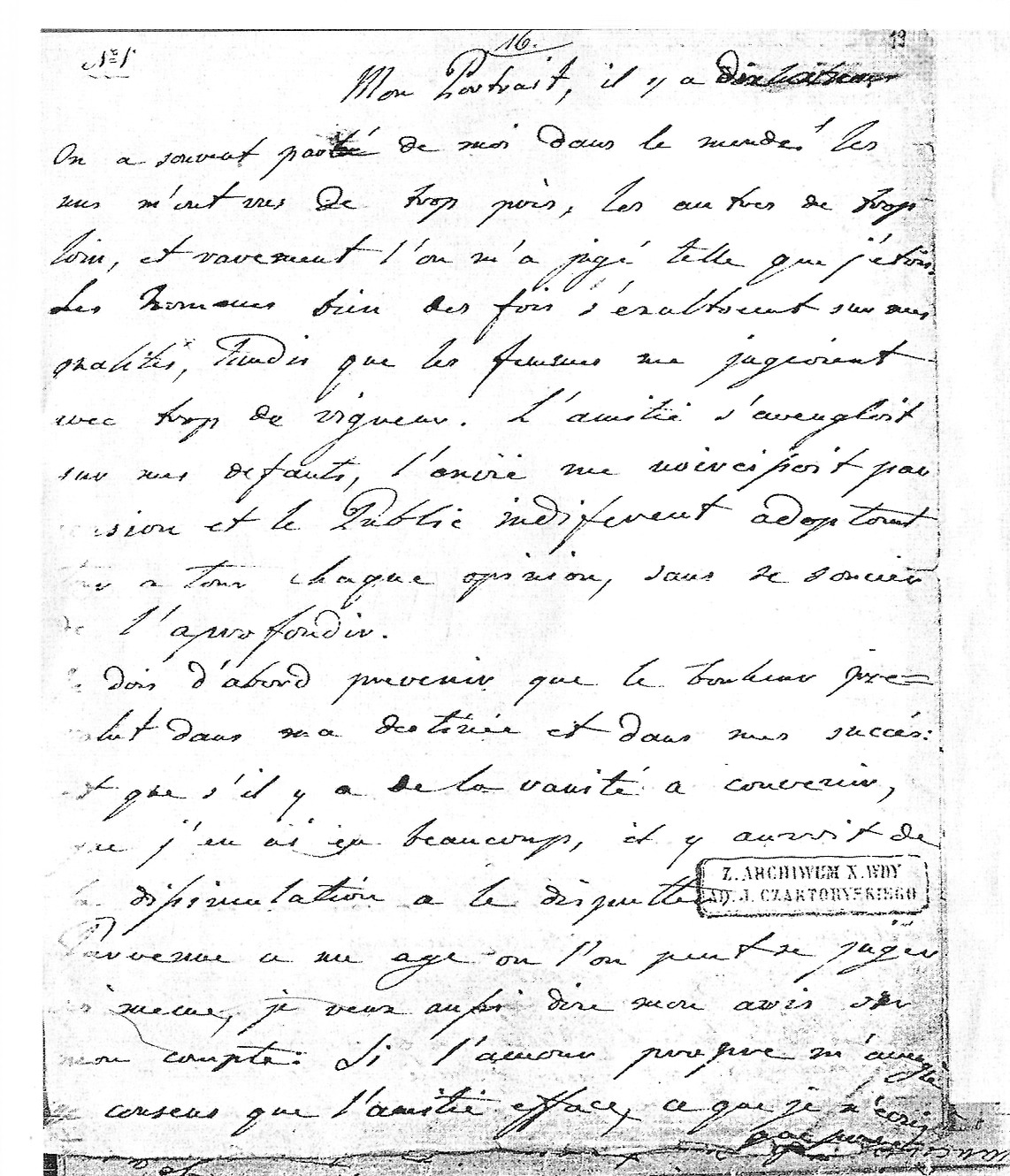 "Mon portrait, il y a dix ans", manuscript by Polish Duchess Izabela Czartoryska